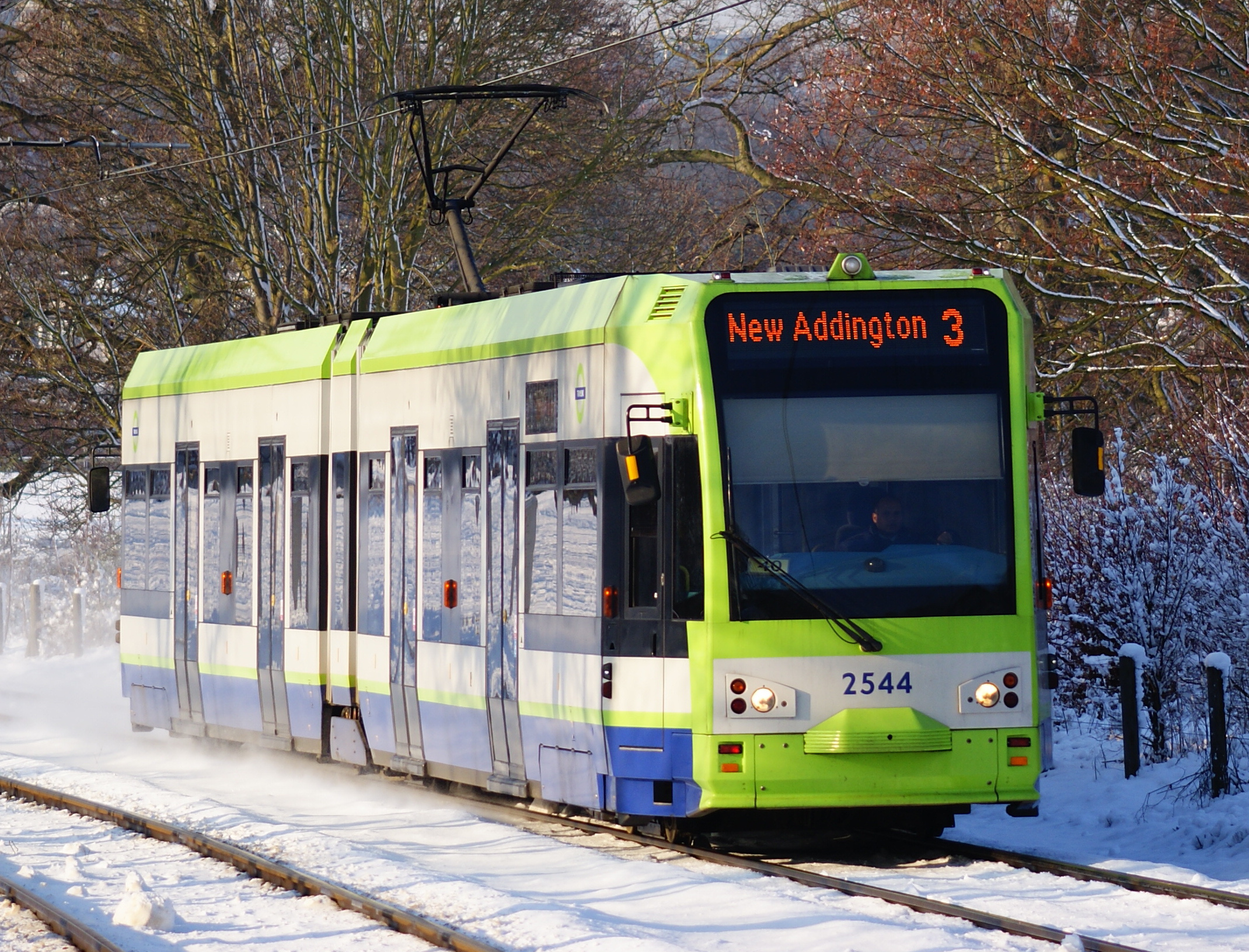 Dashing Through the Snow Tram number 2544 makes its way, through the seasonal snow, towards New Addington. Photographed from the edge of Lloyd Park, Croydon.